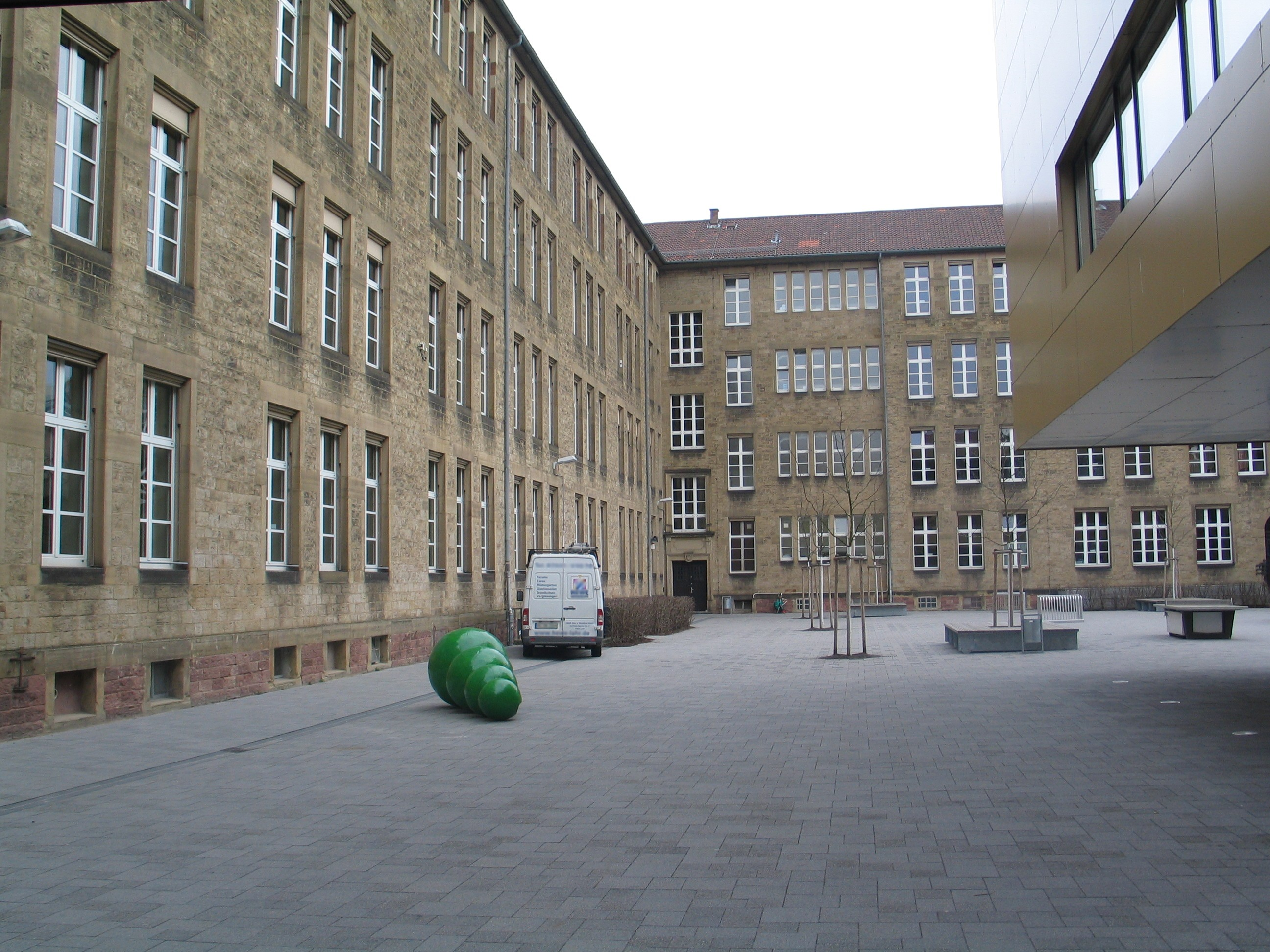 Lessing-Gymnasium Karlsruhe (High School)